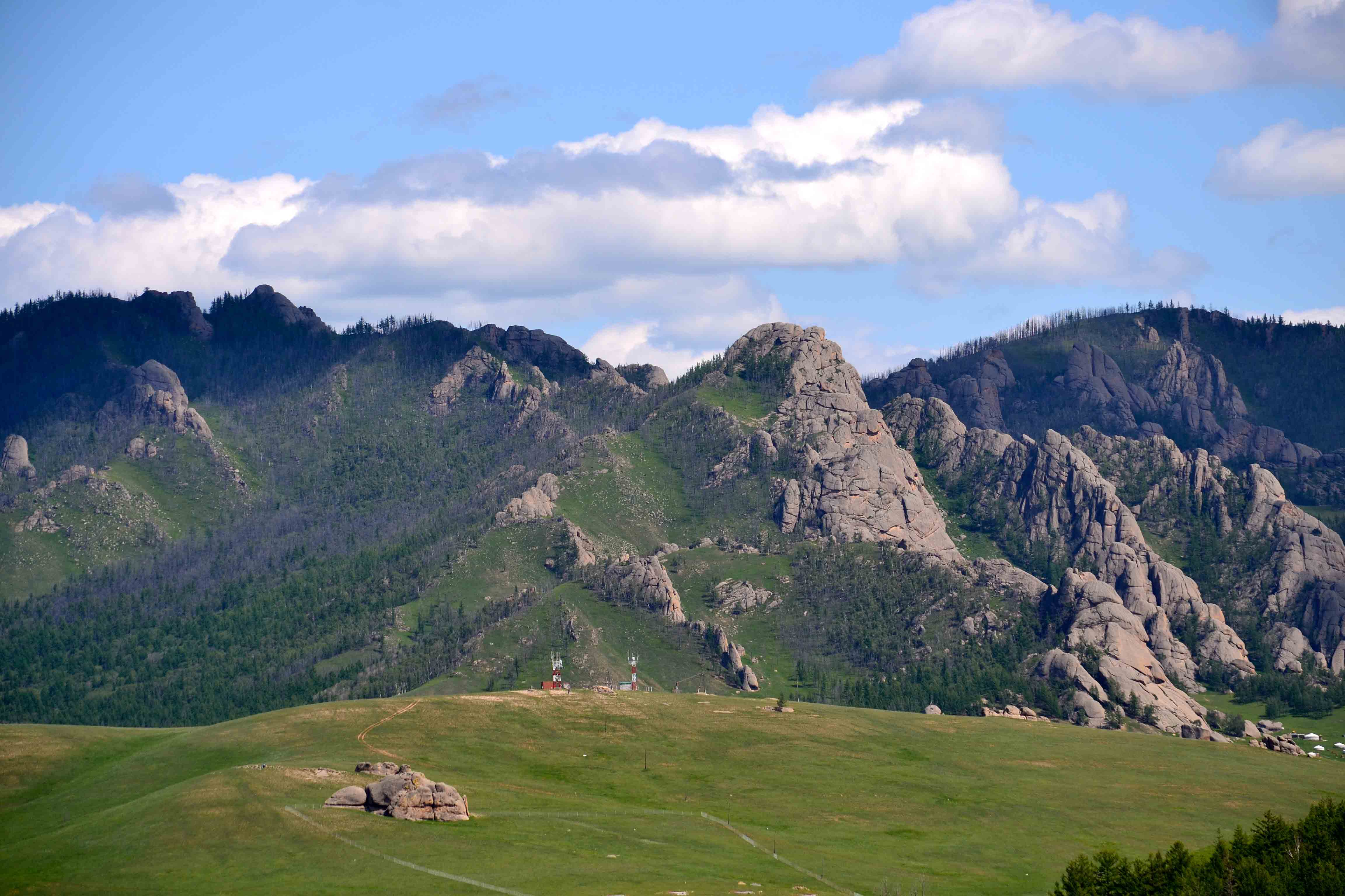 It is conveniently located outside of UB, photo by Gereltuv Dashdoorov